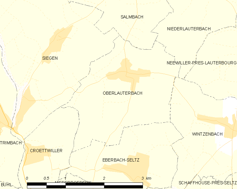 Map of French municipality